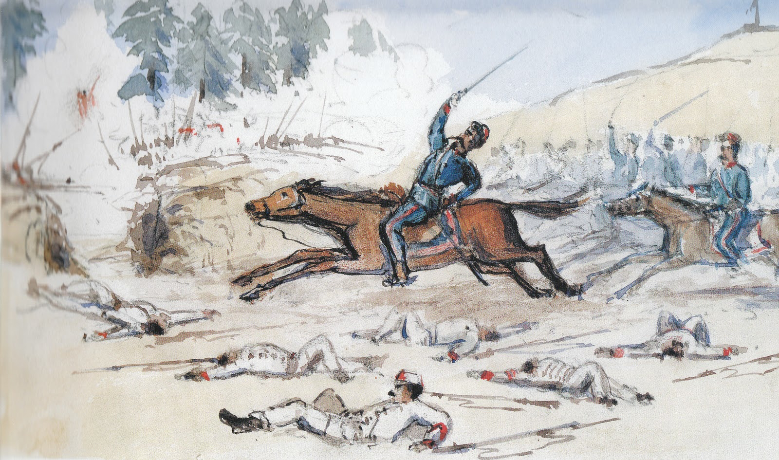 Muerte de Tomás Yávar Ruíz, teniente coronel, comandante Granaderos a Caballo